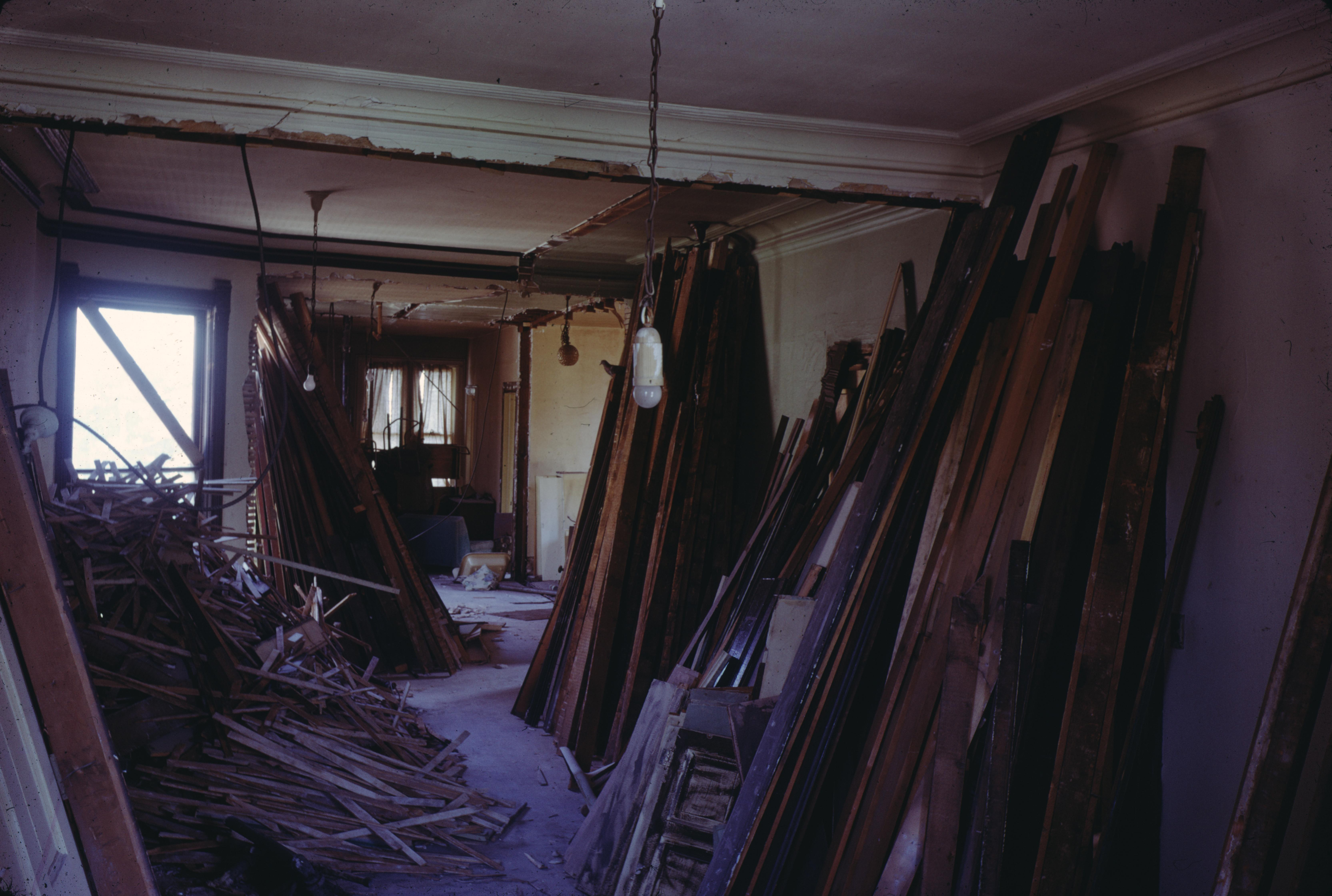 CyberViewX v5.16.55 Model Code=58 F/W Version=1.21 Photography by Victor Albert Grigas (1919-2017)